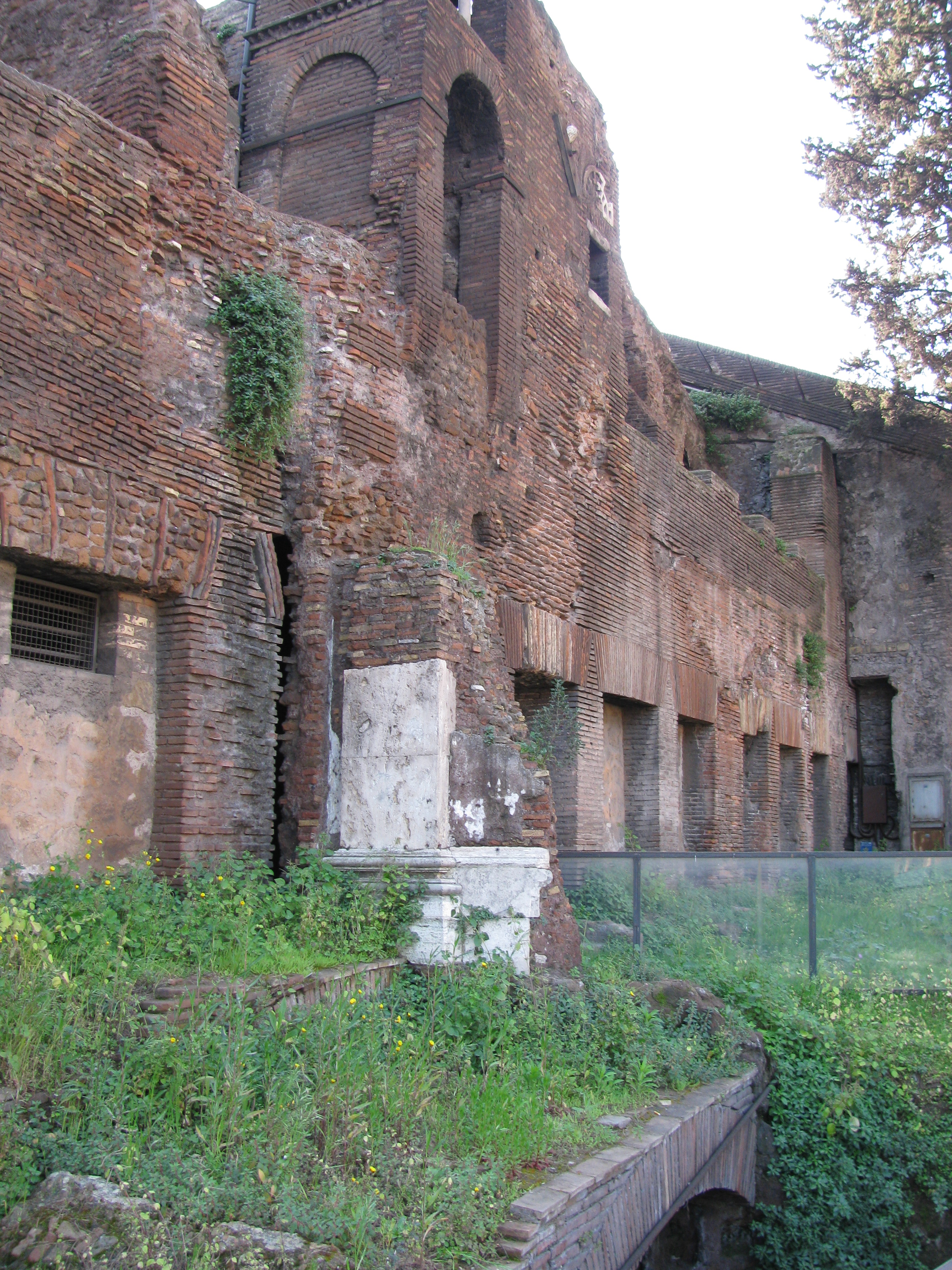 Insula IInd centure DC, upper floors, Capitole west slope, Rome